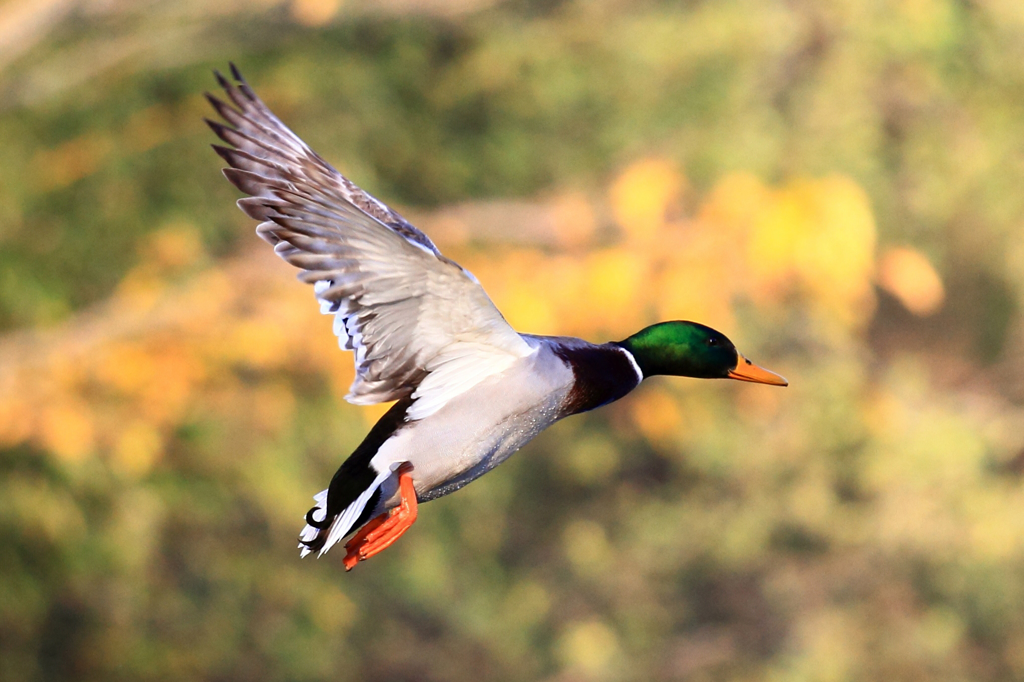 Mallard (Anas platyrhynchos) - Compans lake in Toulouse